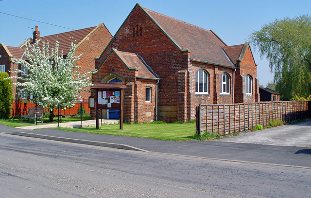 The Methodist Chapel, Foggathorpe, East Riding of Yorkshire, England.This red brick building blends well with the surrounding built environment.